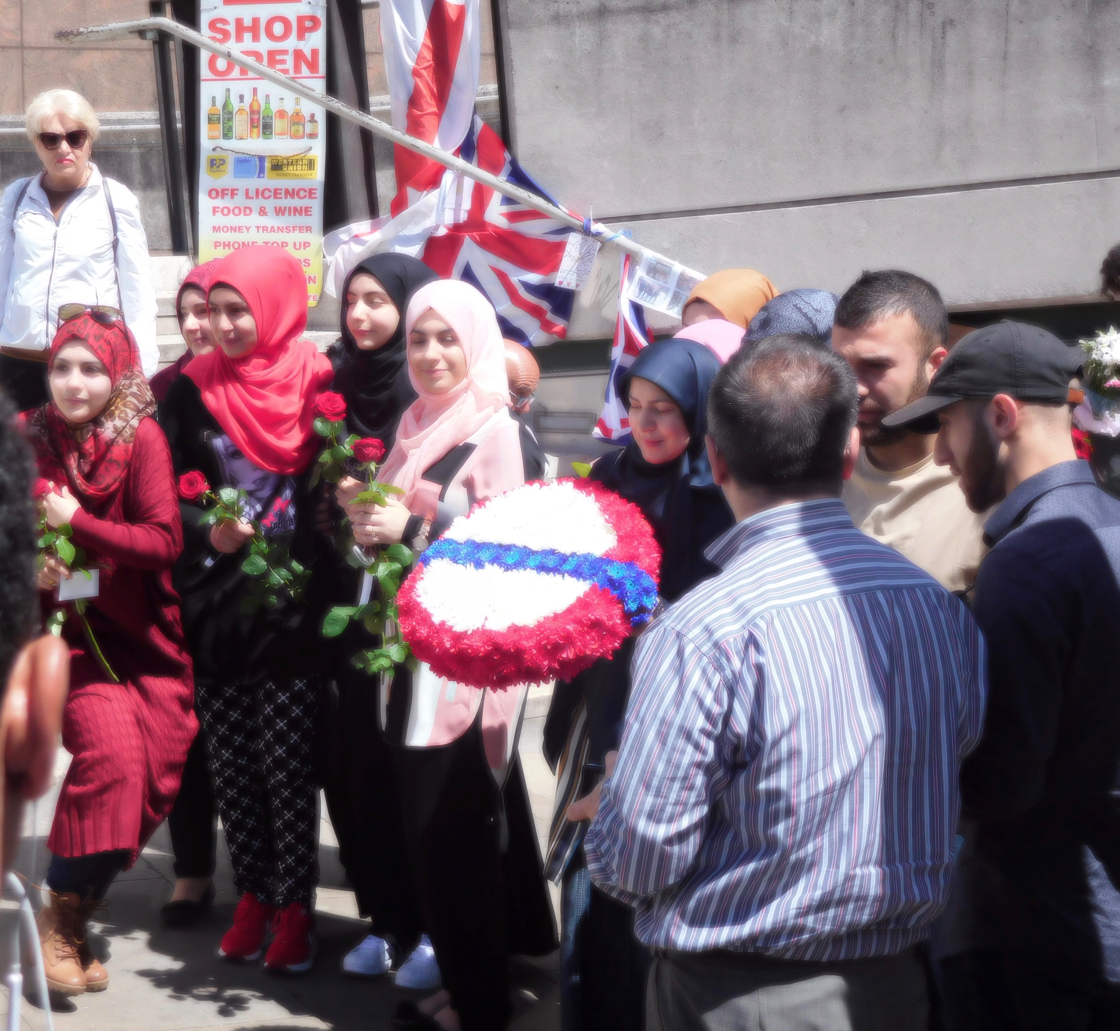 Muslims offering peace at London Bridge after the 2017 terrorist attack.